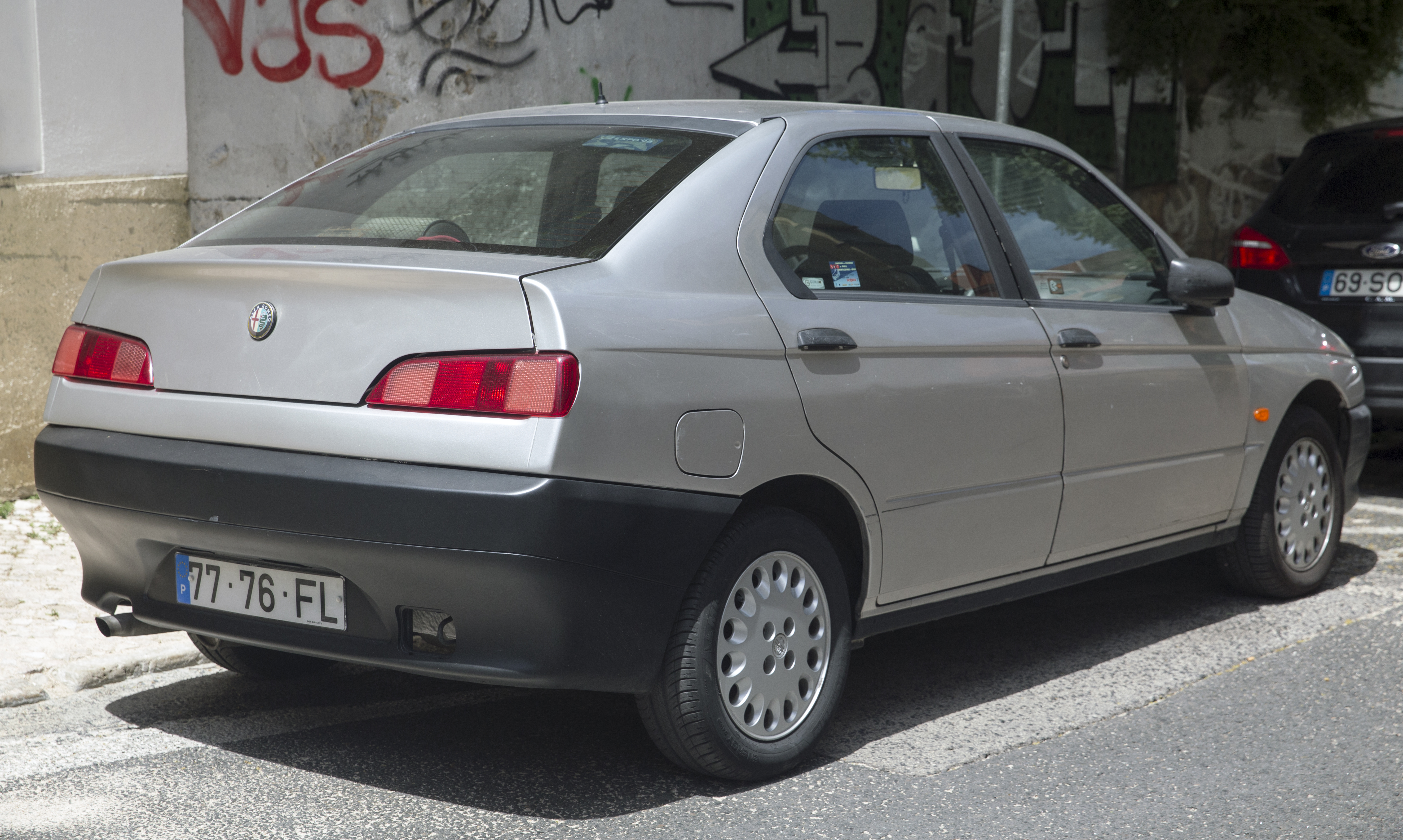 An Alfa Romeo 146 (1.4 base model, it seems) in Lisbon, Portugal.